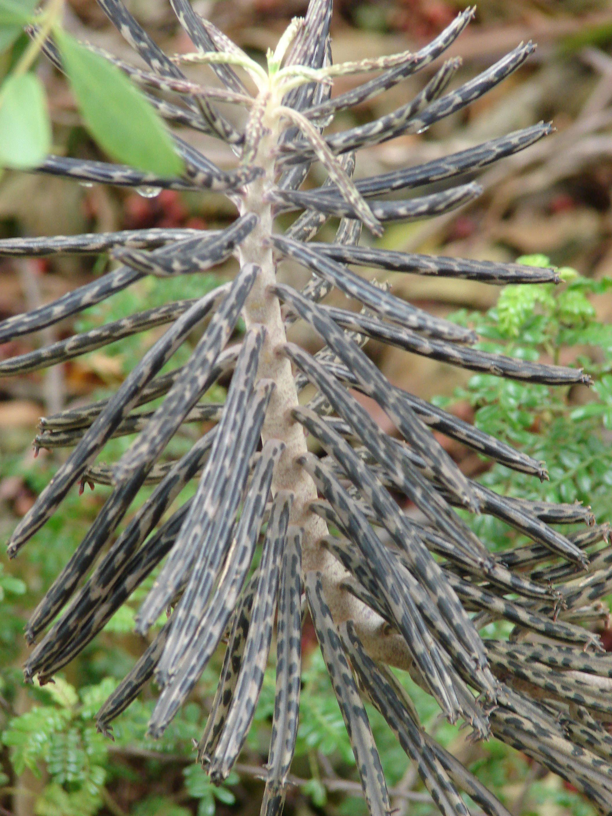 Kalanchoe tubiflora (habit). Location: Maui, Makawao